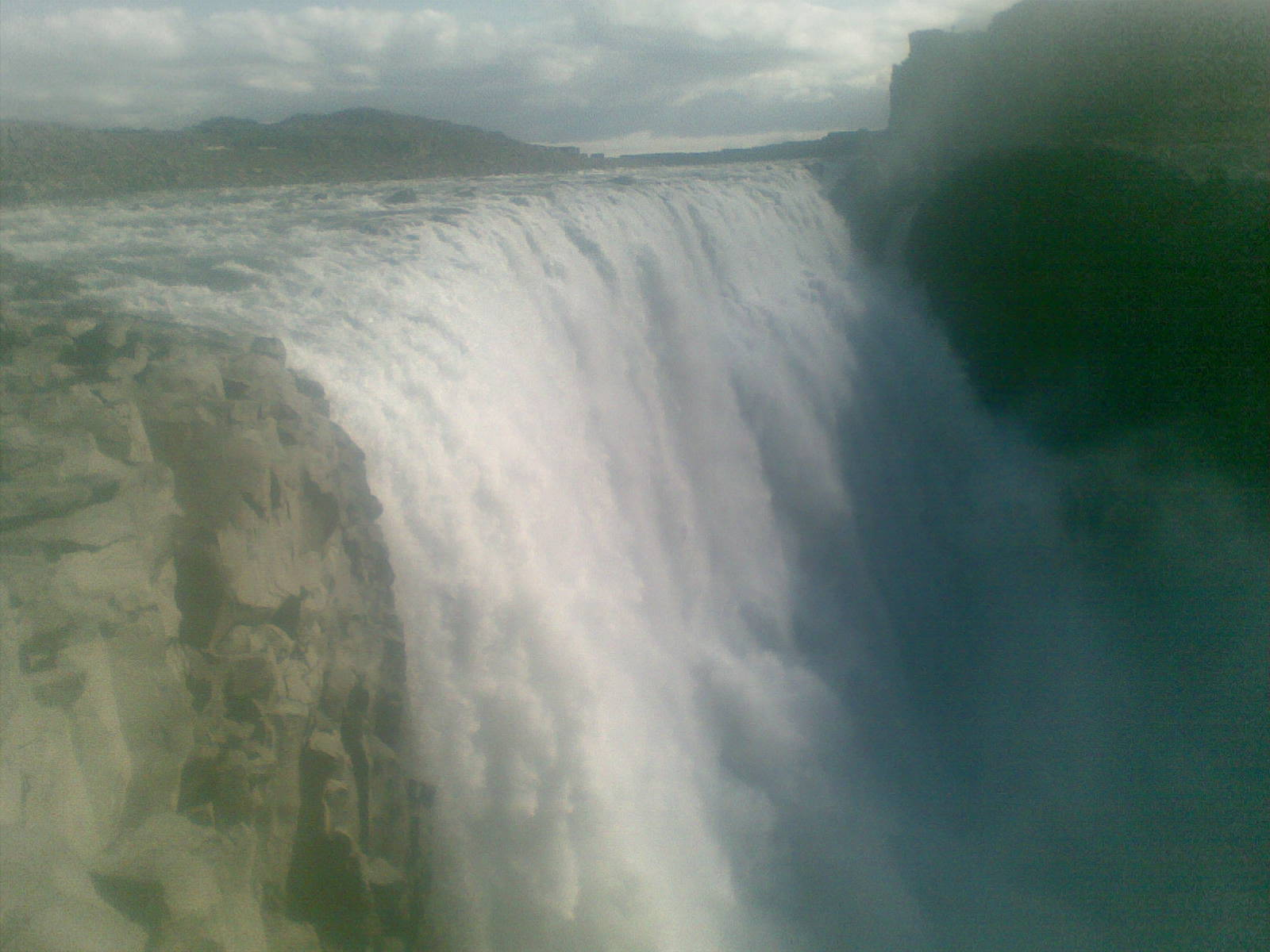 Dettifoss, the largest waterfall in Europe in terms of volume discharge.